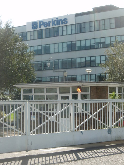 Perkins Engines Gate house and office block for Perkins Engines.